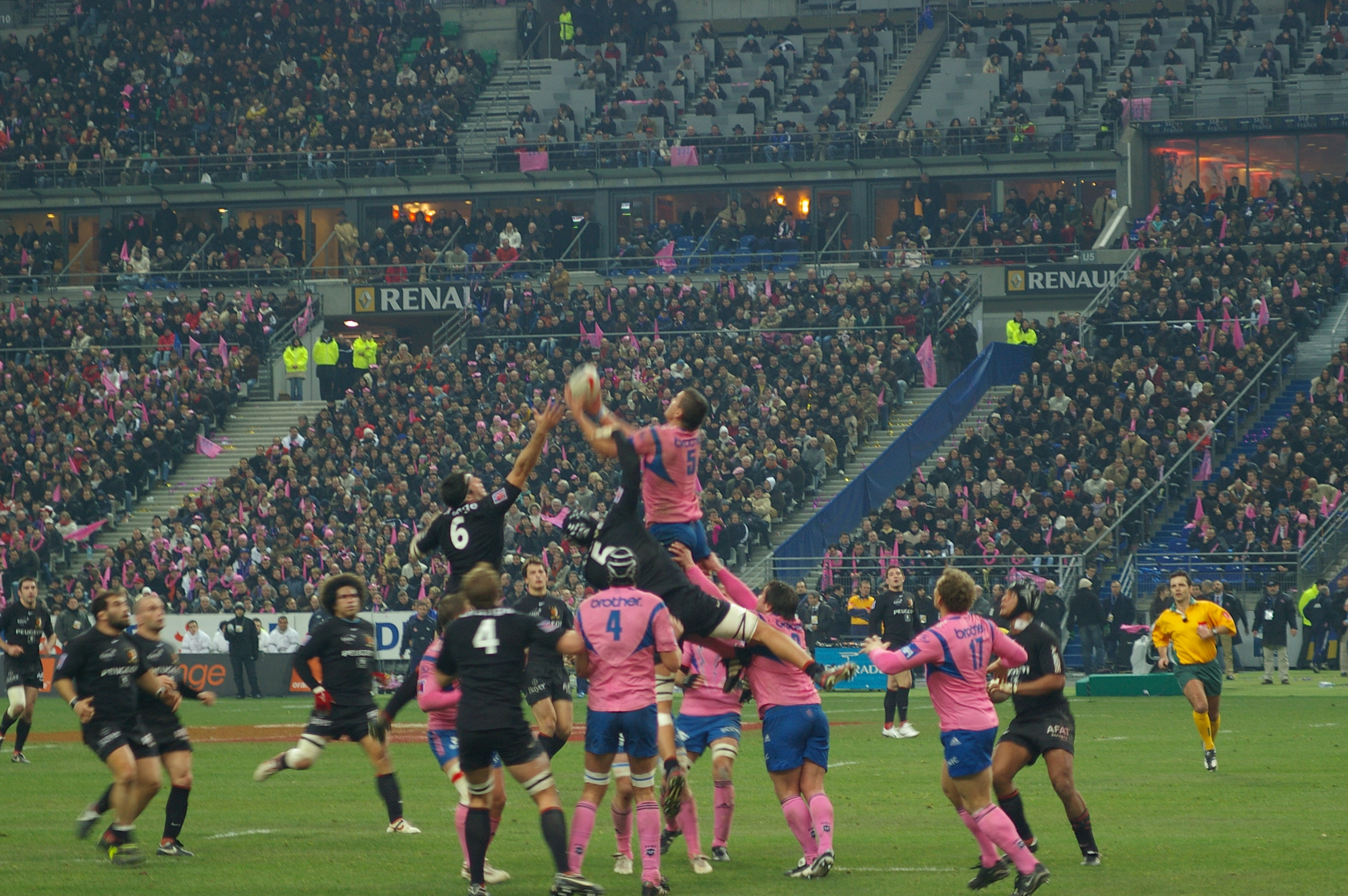 Pictures from the rugby game Stade Français vs Stade toulousain which took place in Stade de France, Paris, 27/01/2007.